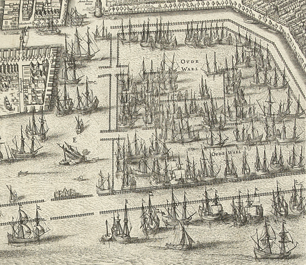 The Oude Waal in Amsterdam.